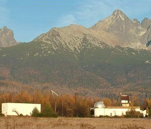 Astronomical Institute of Slovak Acedemy of Sciences